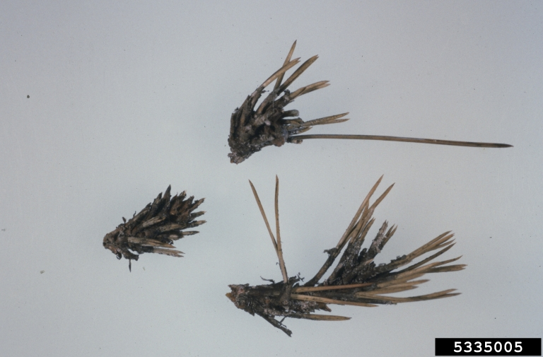 clubbed shoots showing needle stunting and death (Pinus nigra Arnold), United States